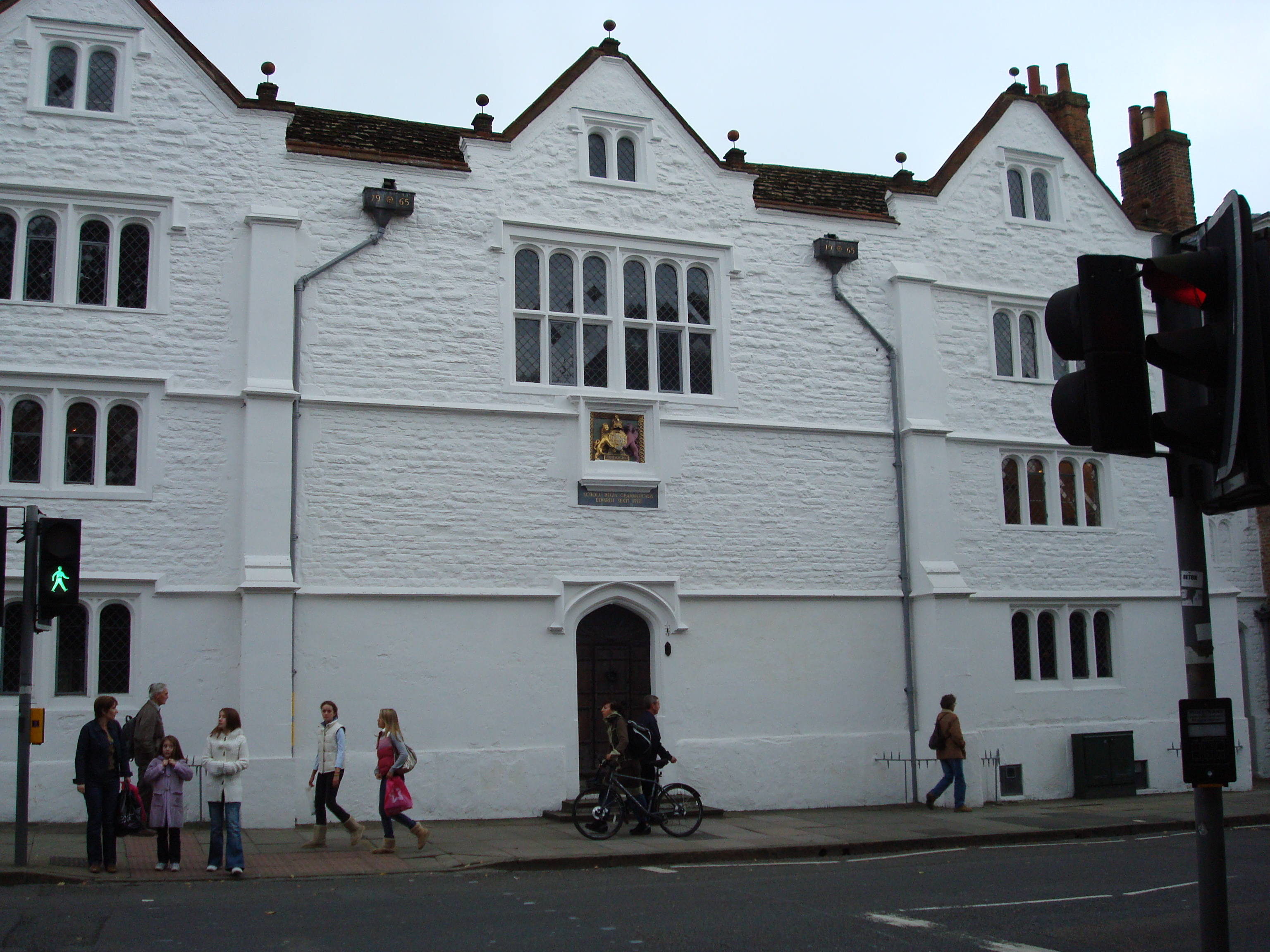 Royal Grammar School, Guildford (S Knights, my pic, Oct 2007)